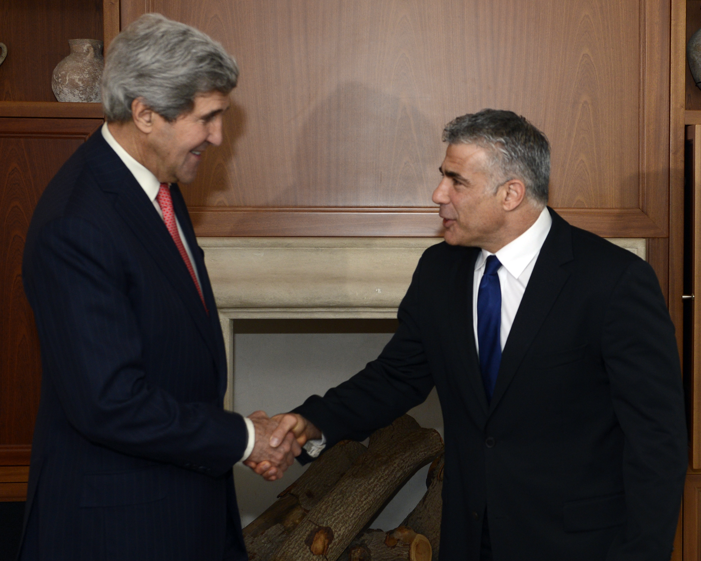 Secretary of State John Kerry visit to Israel December 4-6, 2013